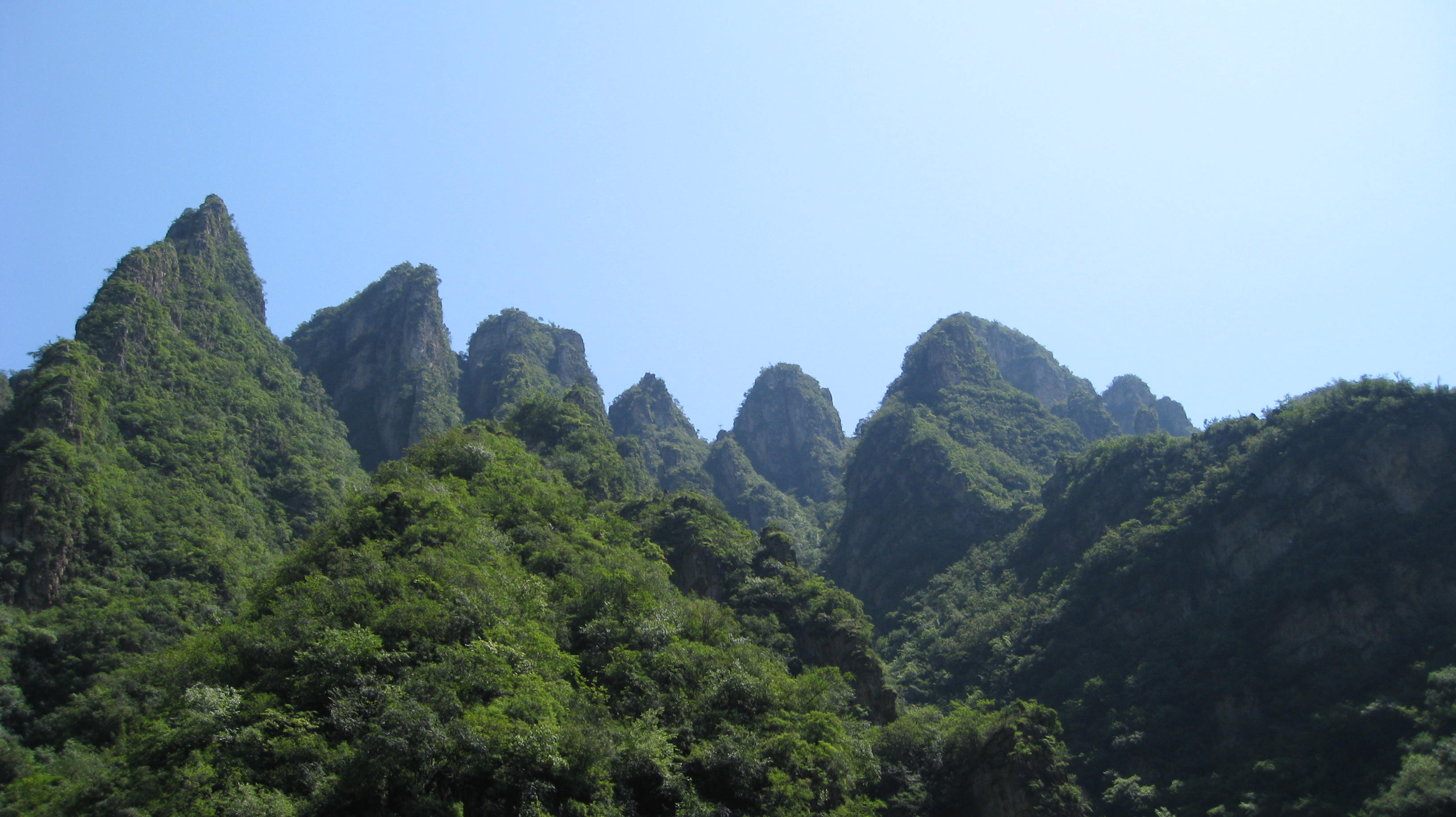 shidu, just an hour out of beijing